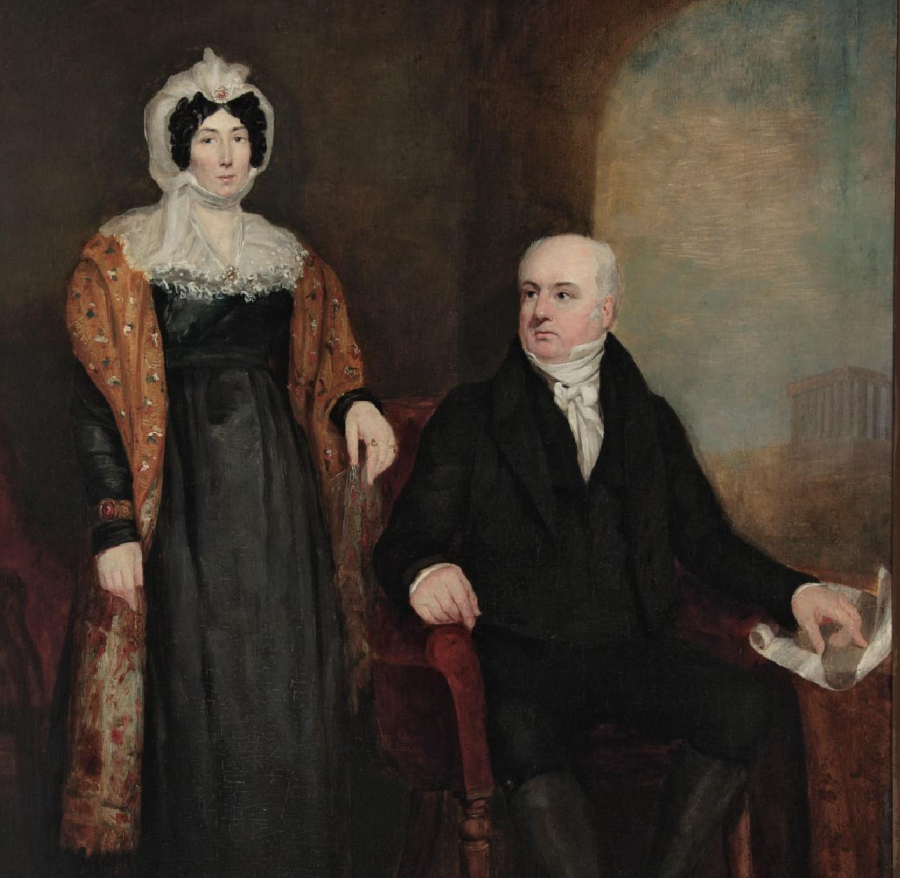 Mr. and Mrs. Michael Linning, 1828-1834, 19th century, Oil on canvas, 77 x 69 cm